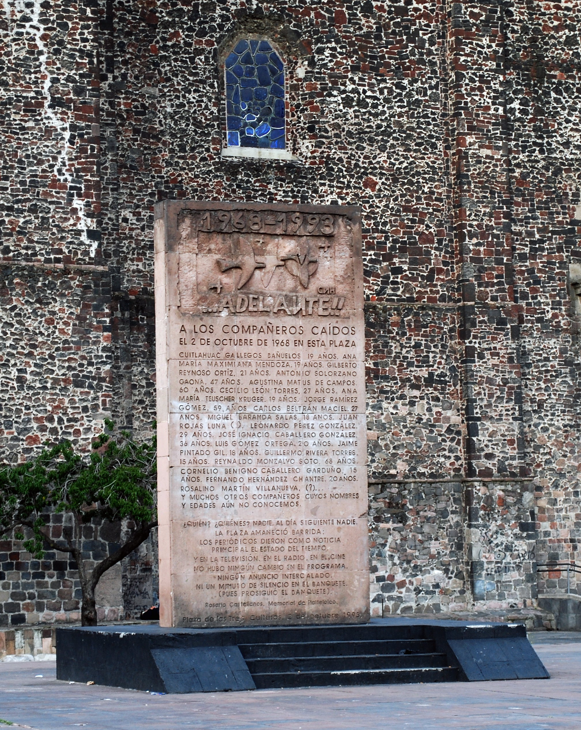 Monument to massacre in the Plaza de las Tres Culturas in 1968 in Tlatelolco, Mexico City